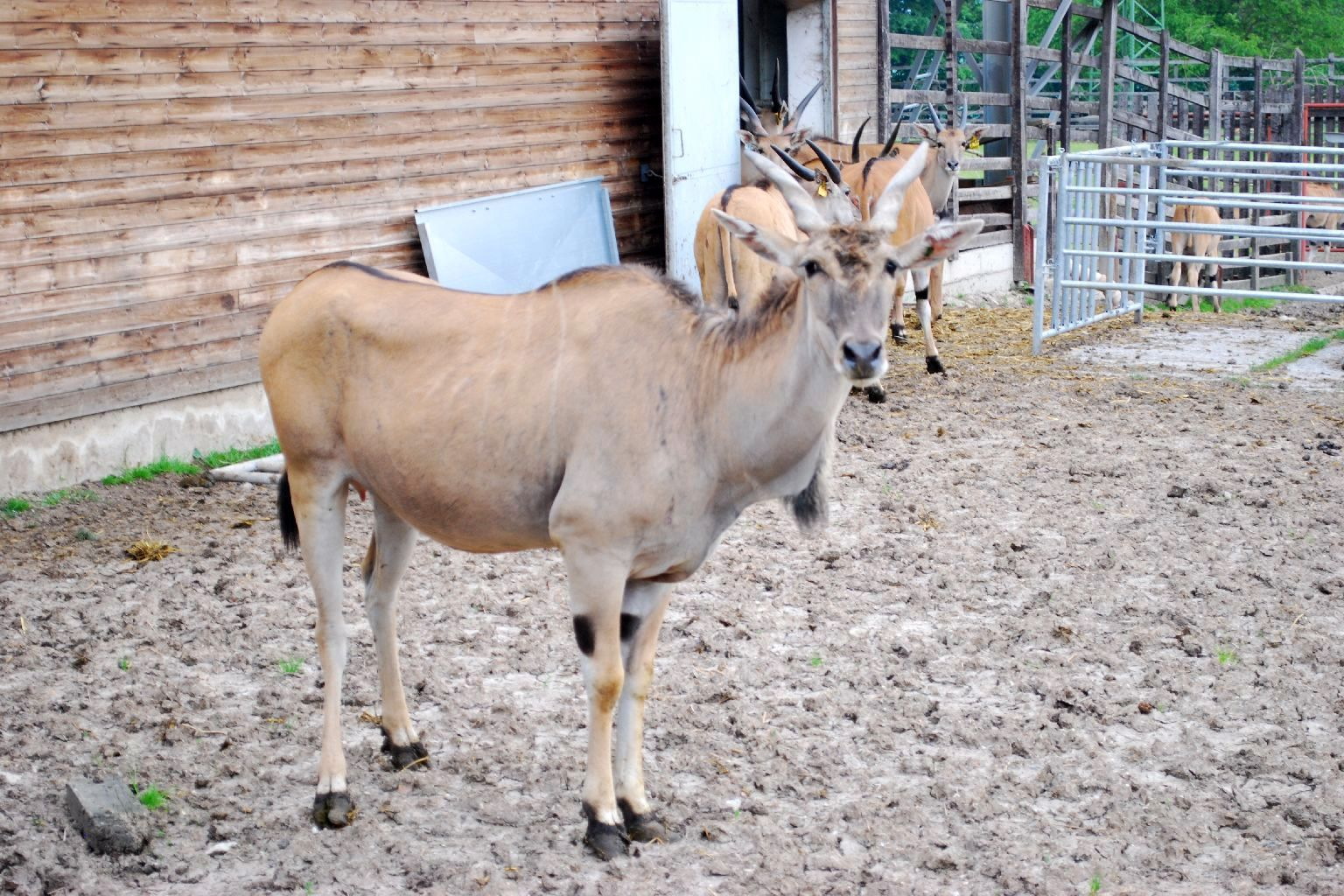 Common elland (Taurotragus oryx) on a farm